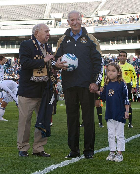 Joe Biden with Walter Bahr and granddaughter Natalie before Philadelphia Union vs DC United at Major League Soccer match at Lincoln Financial Field.